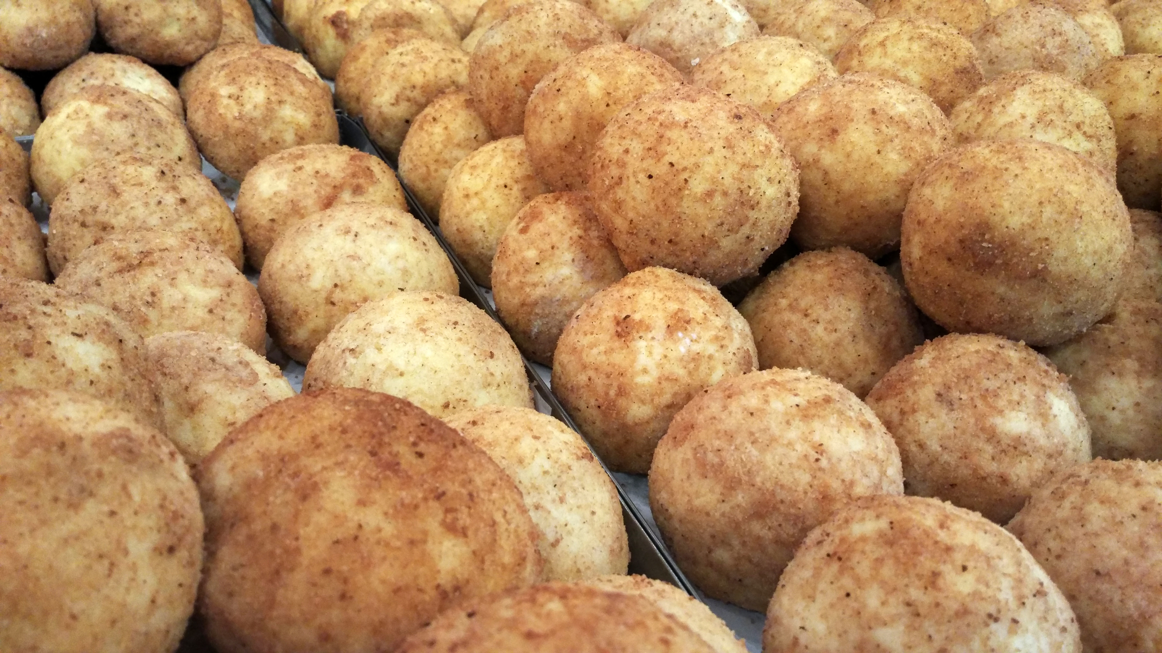 a bunch of arancini for sale in Italy